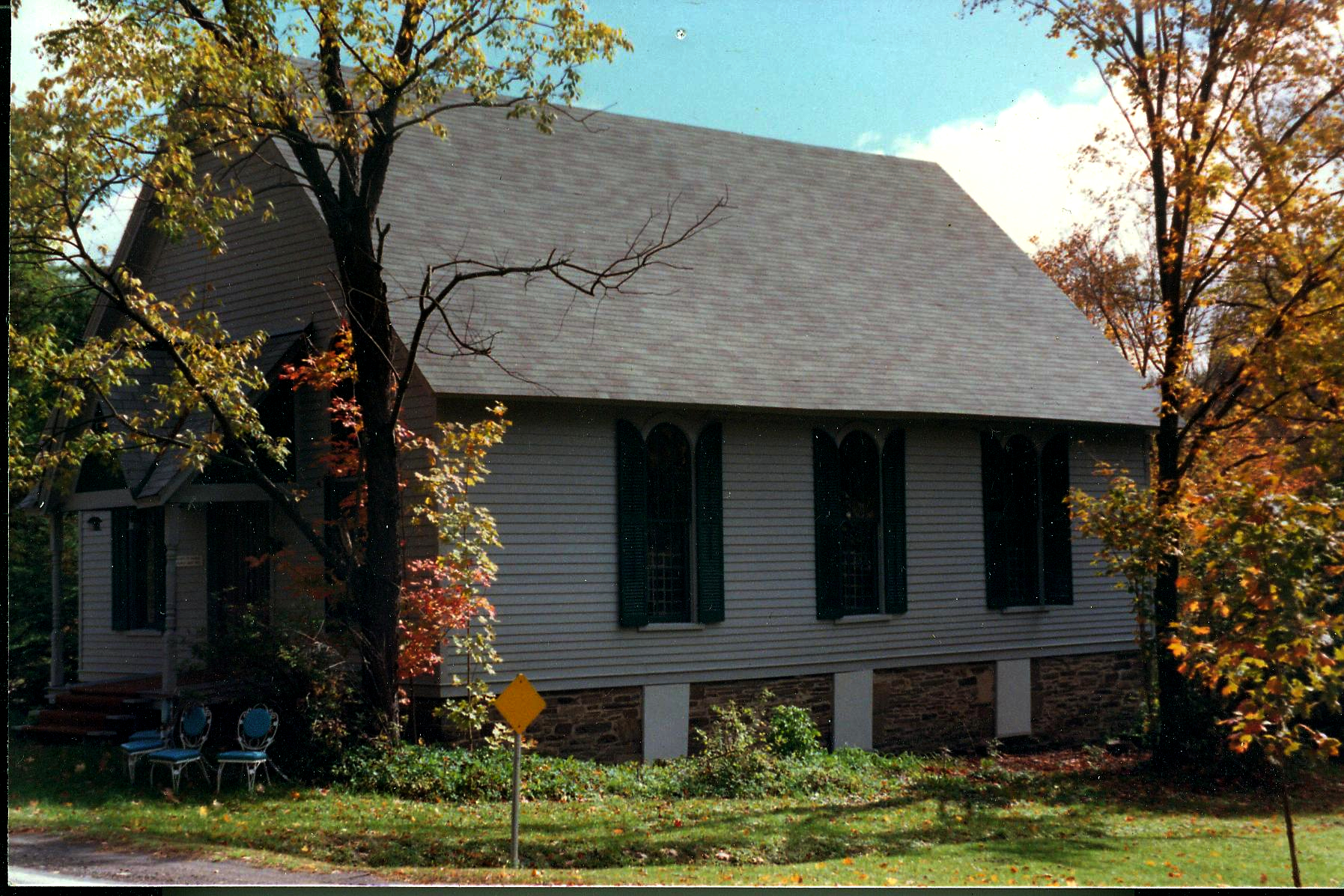 The Meeting House at Upperville 1988